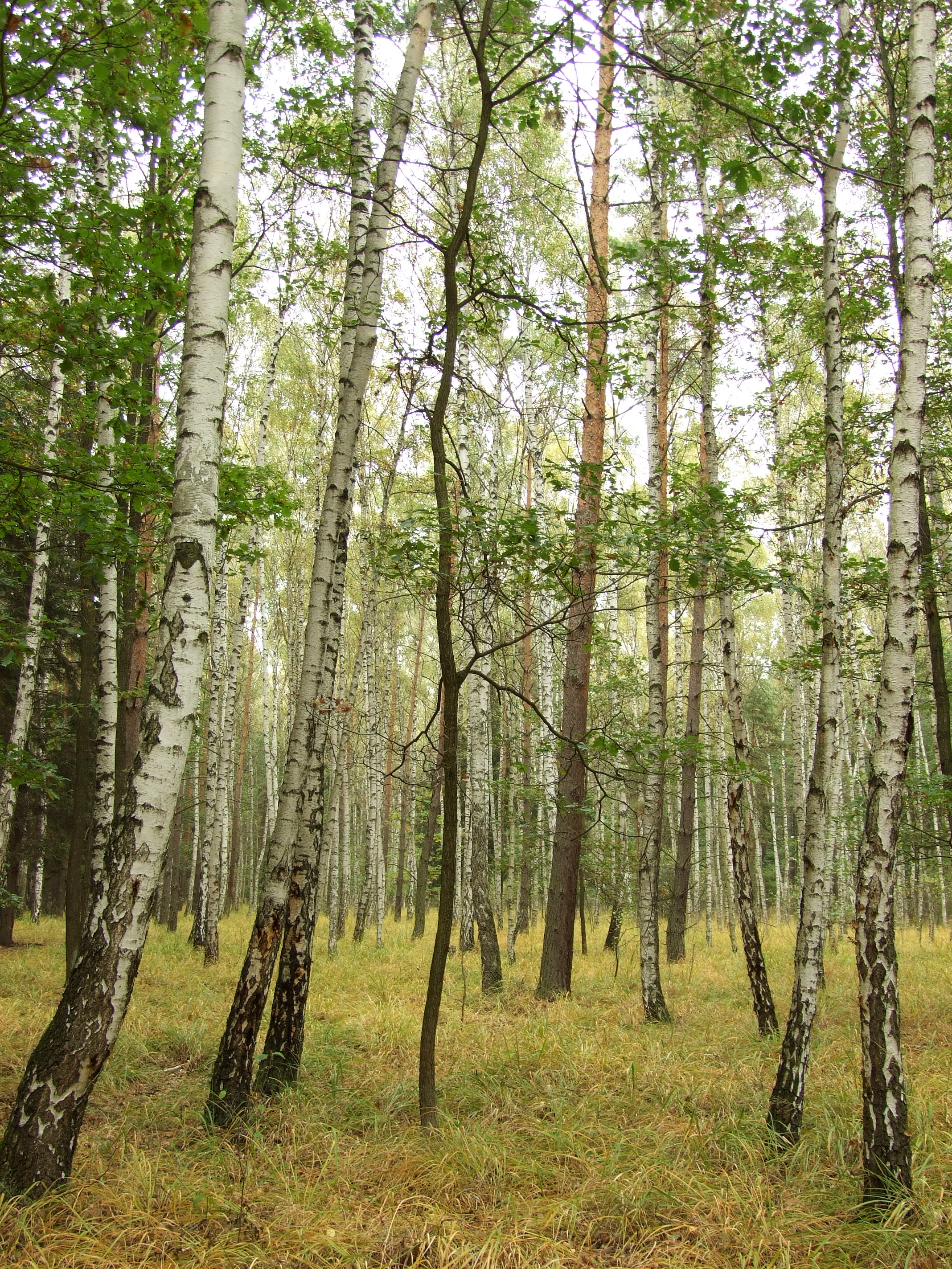 Klánovice Forest-eastern part, Prague, CZhelp